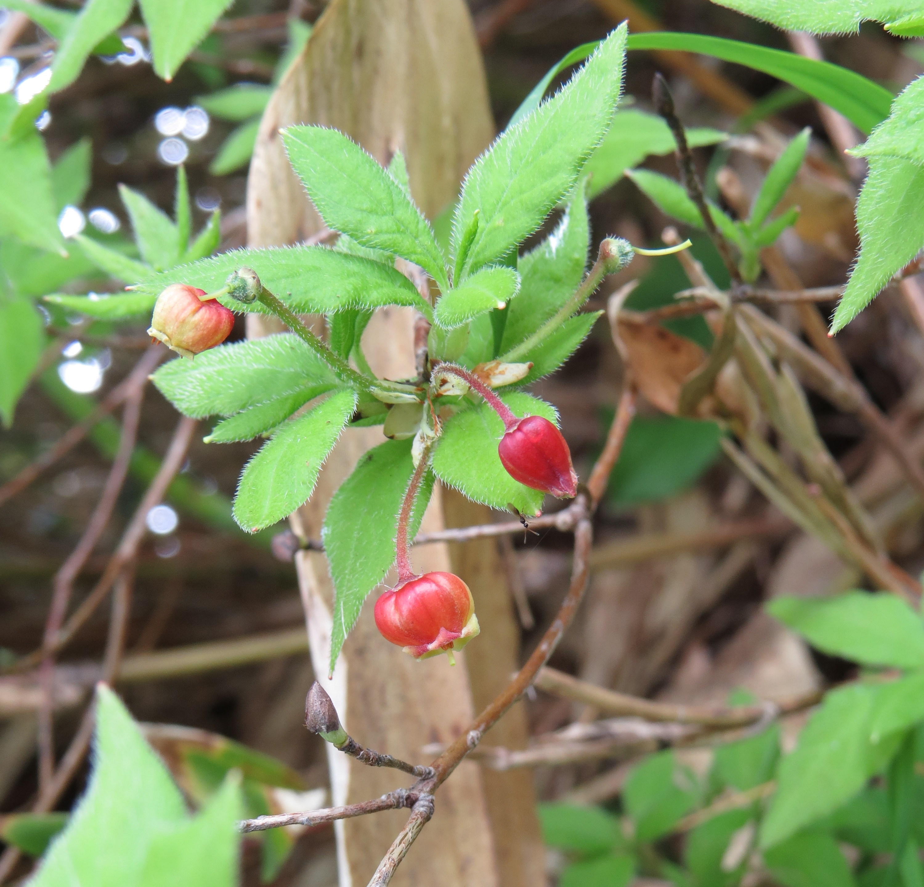 Rhododendron pentandrum, in Mount Haku, Japan.